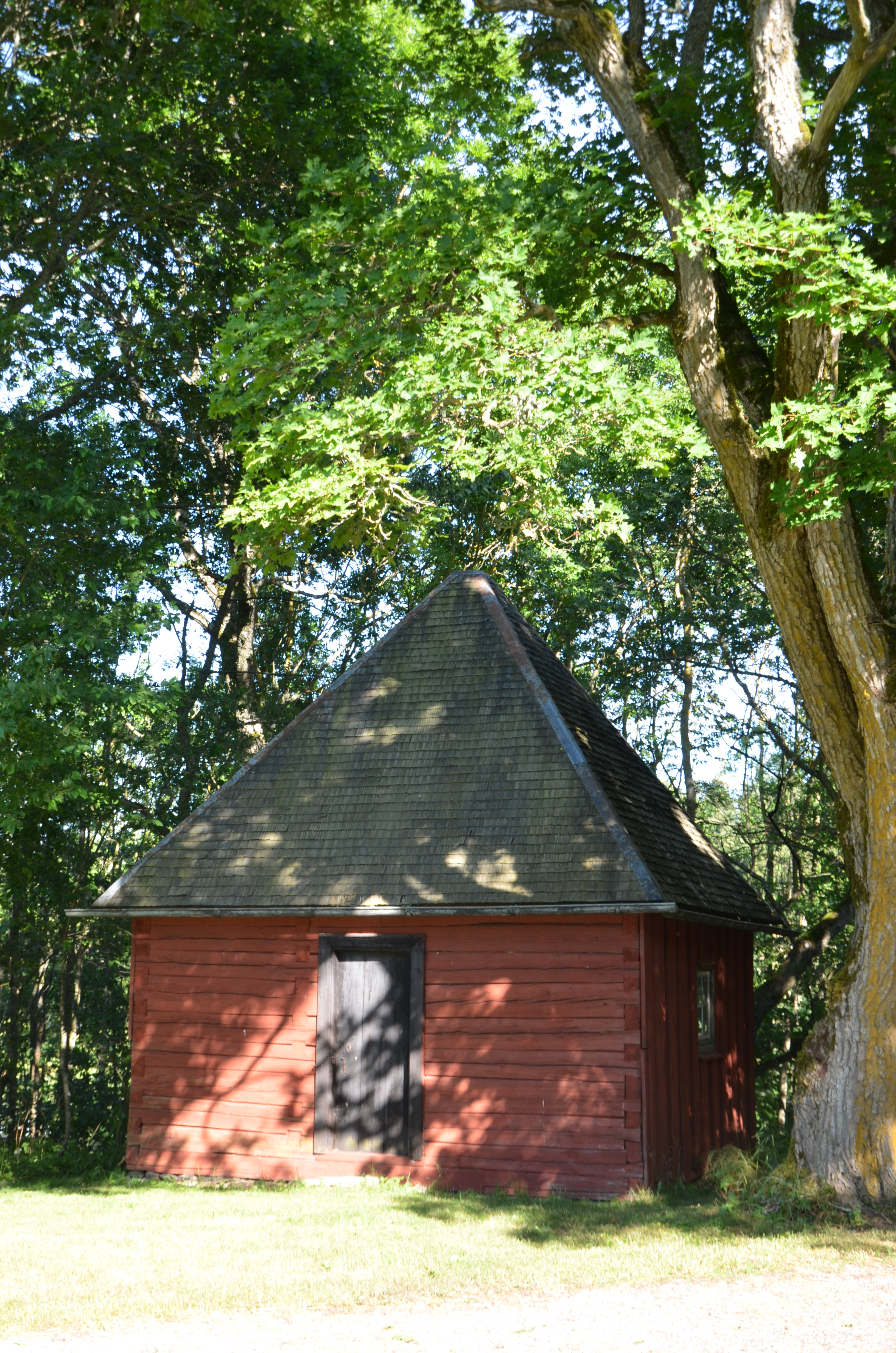 Korsnäs prästgård, Söderköpings kommun